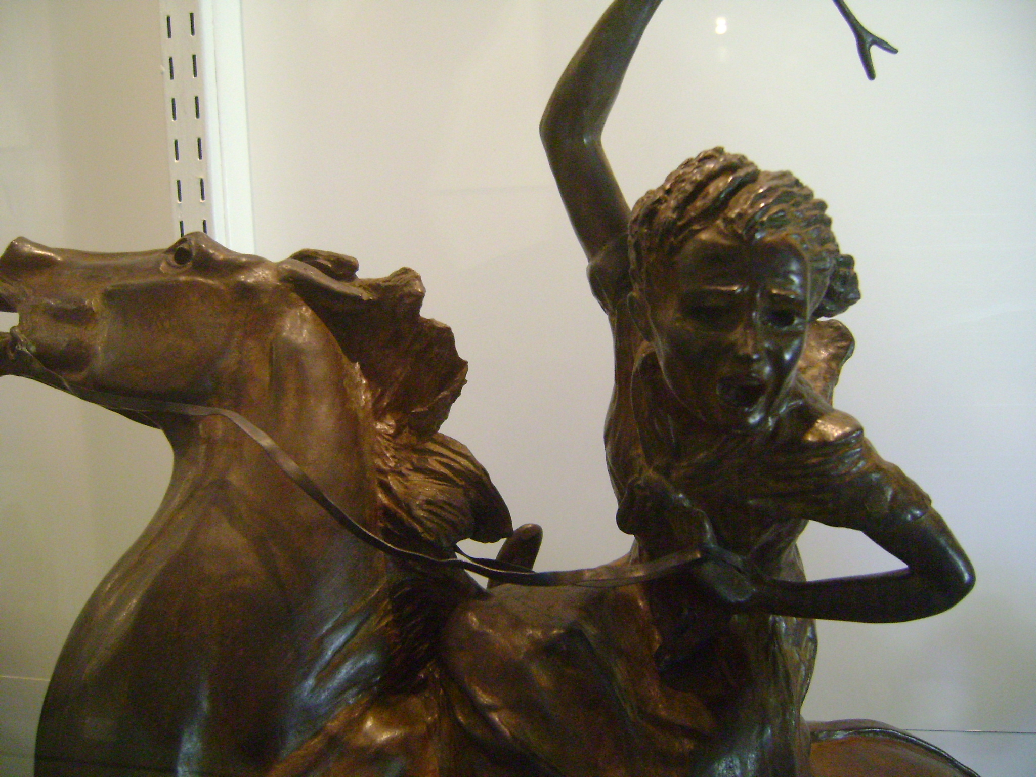 Close up of another Sybil Ludington statue at the Offner museum at Brookgreen Gardens; Myrtle Beach, SC.